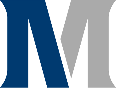 Menlo College symbol